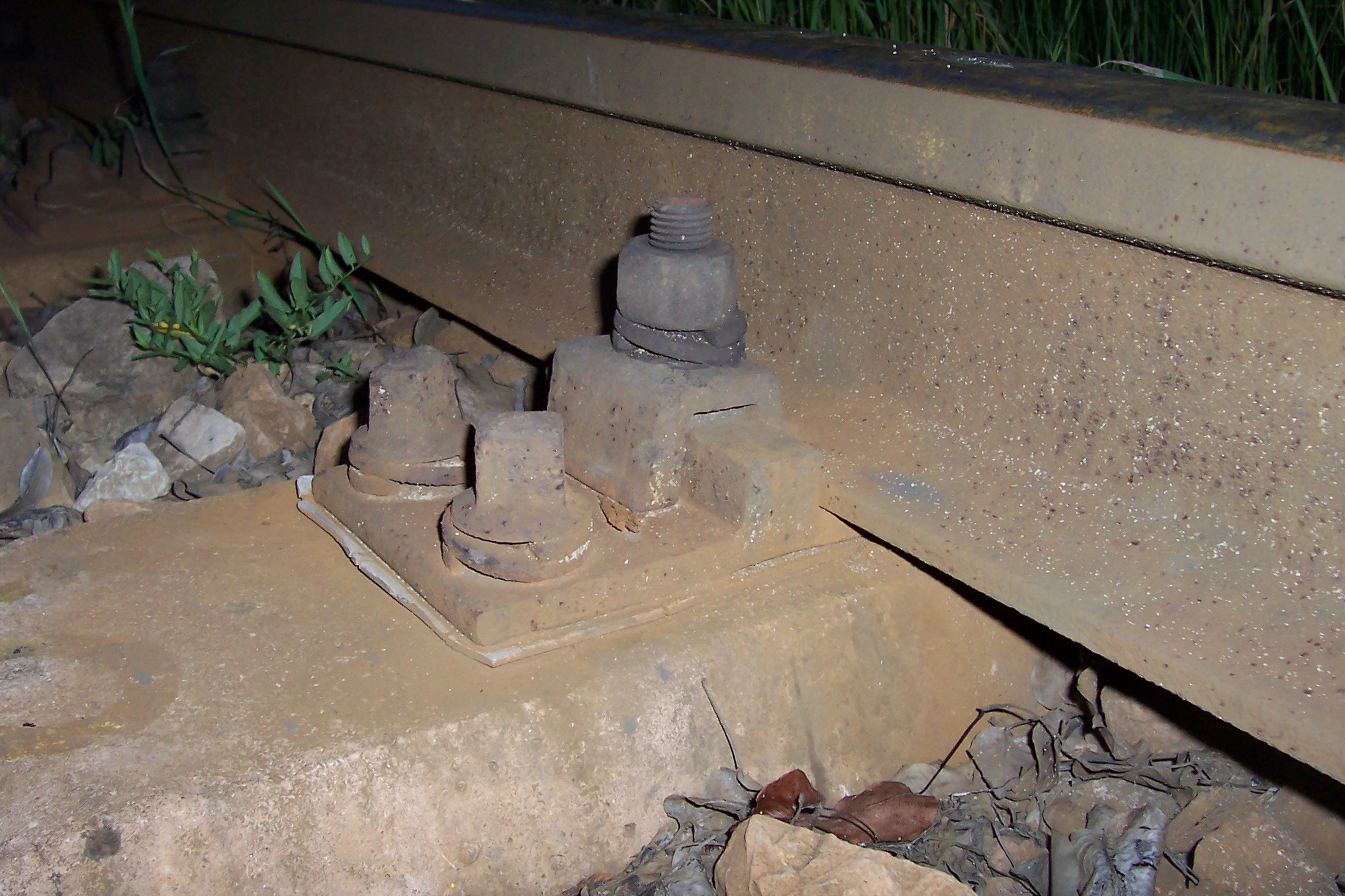 Static fastening of rails to railroad ties